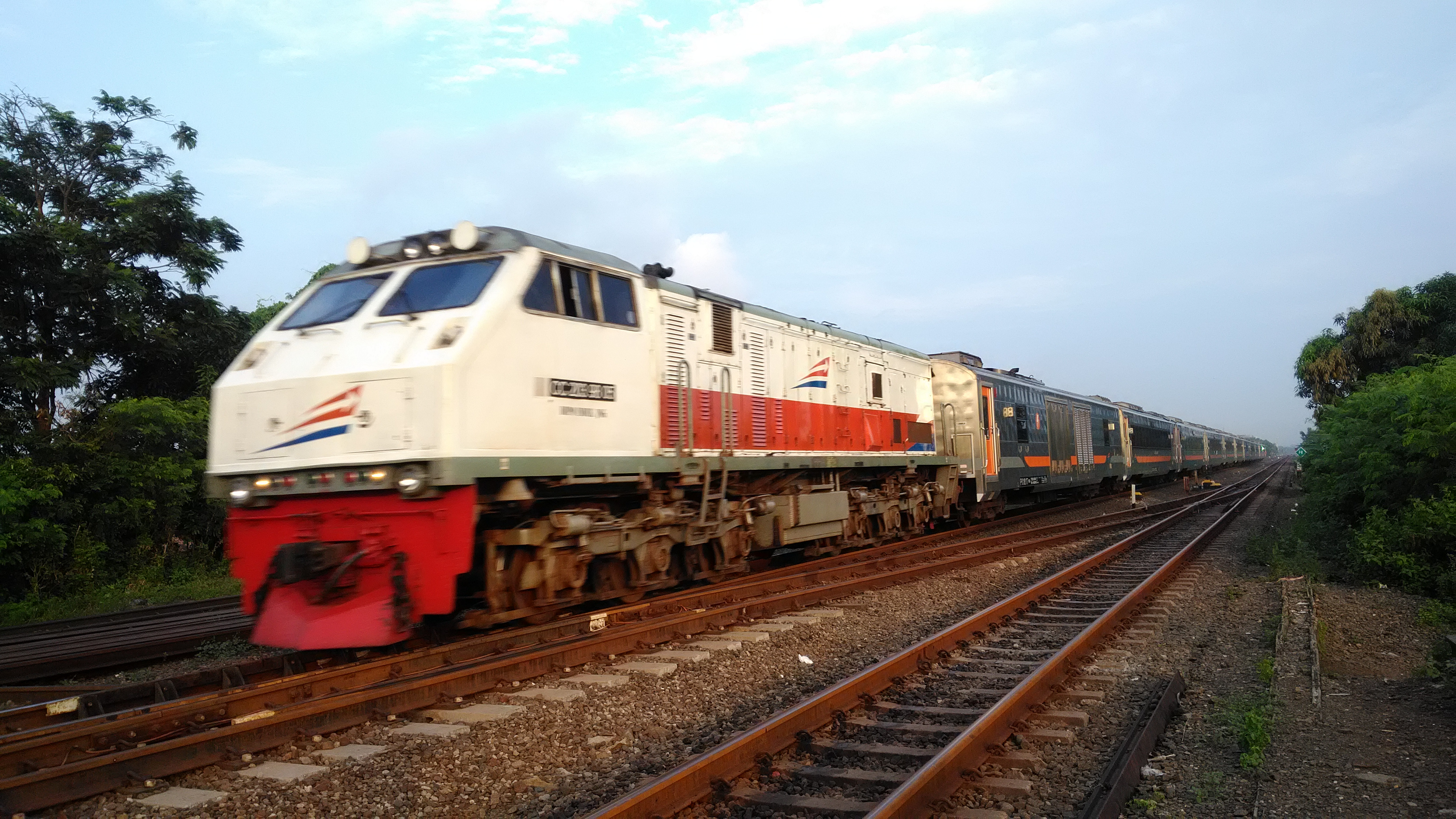 Kutojaya Utara Train new image with Stainless Steel